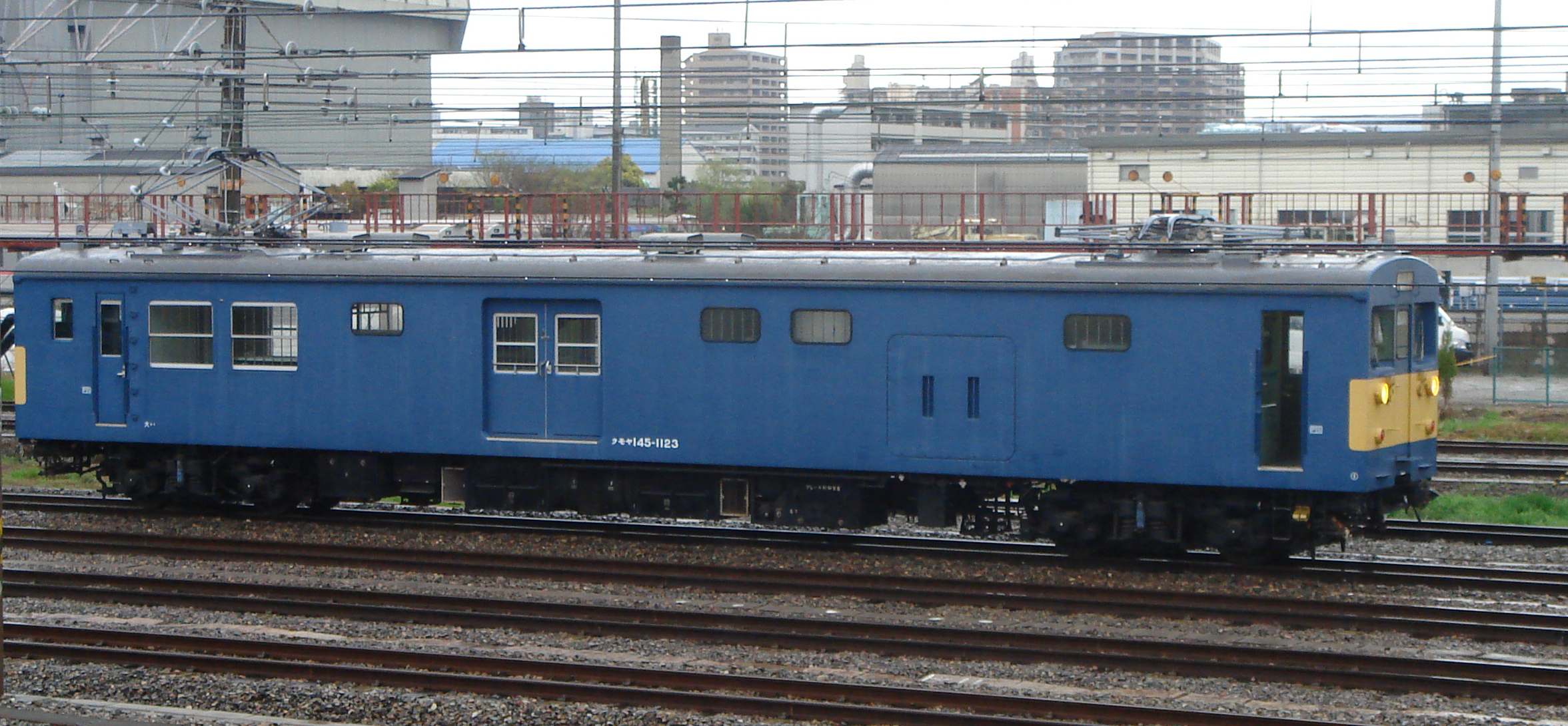 Kumoya 145-1123 at yard by Osaka castle.